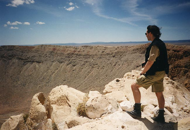 View from the north rim of Meteor Crater.